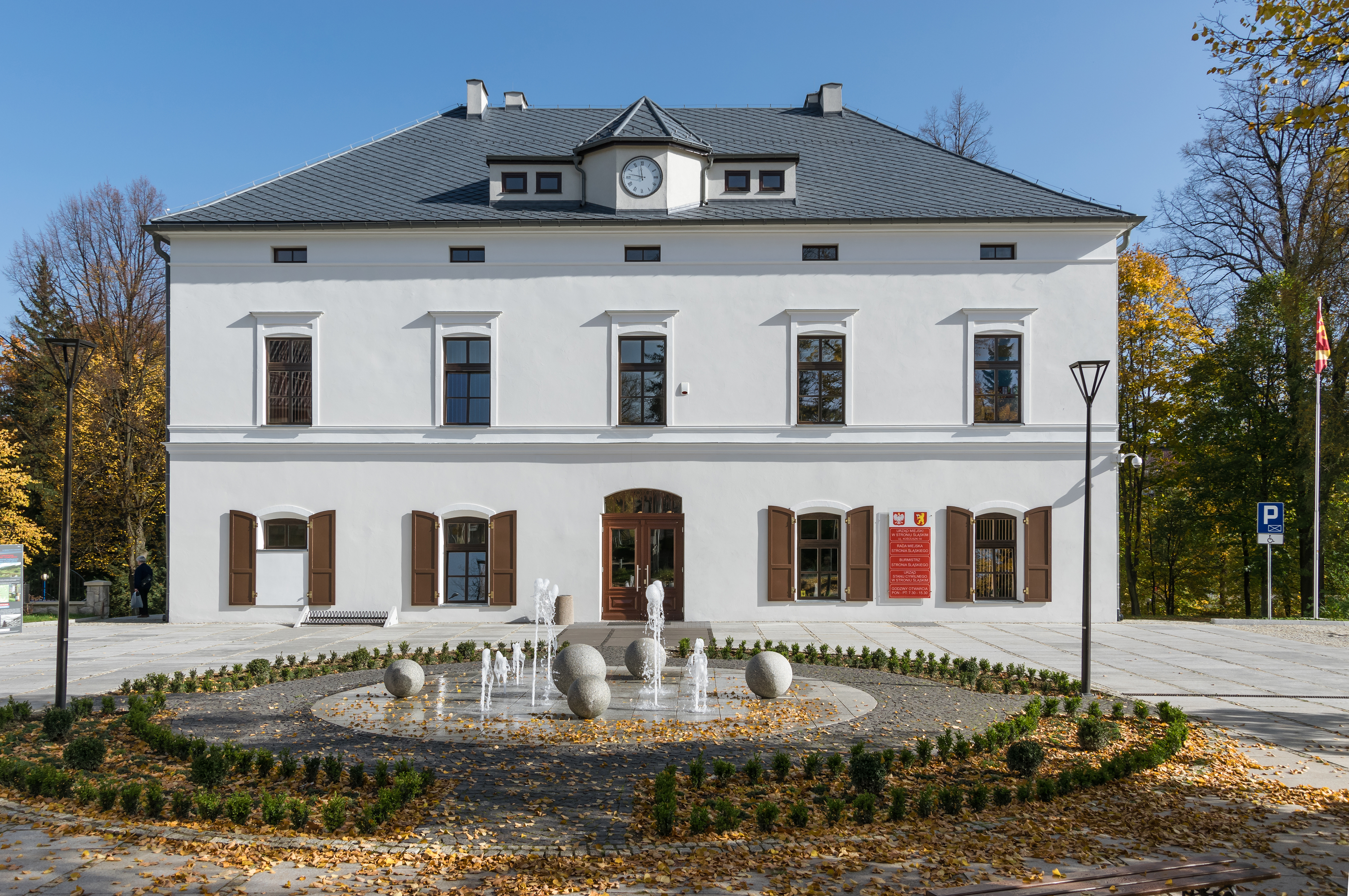 Marianna Orańska palace in Stronie Śląskie